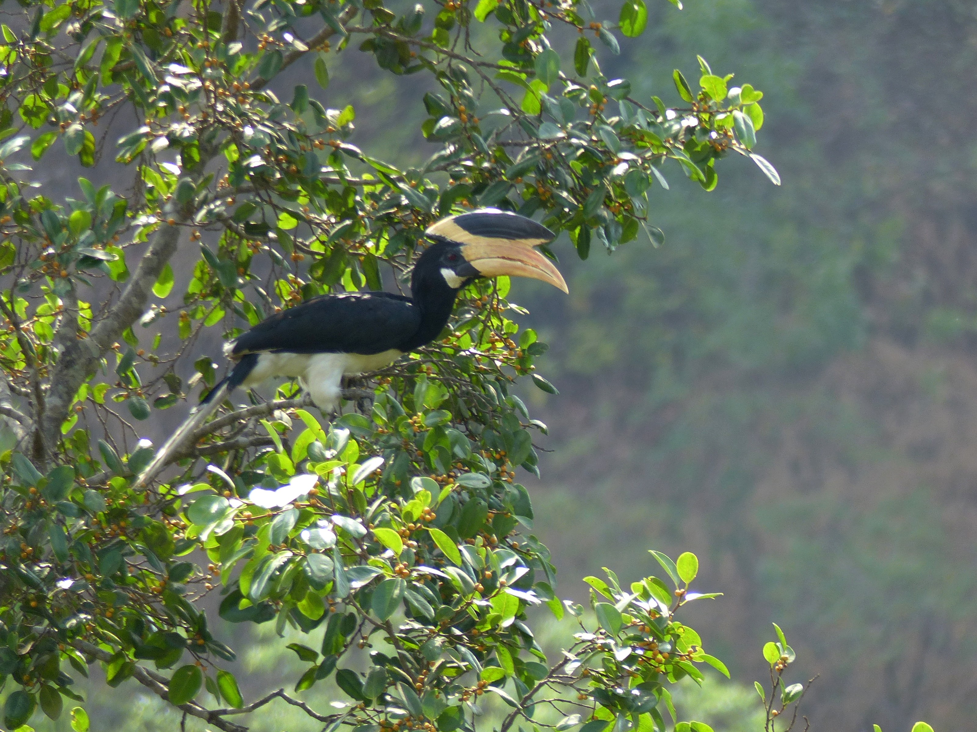 Malabar Pied Hornbill (Male) at Shenale Ghat, Mandangad, Maharashtra (part of Sahyadri ranges, Western Ghats).